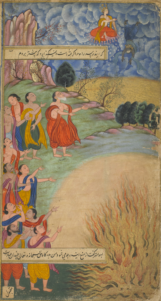 Folio from the Ramayana of Valmiki (The Freer Ramayana), Vol. 1, folio 57; recto: text; verso: Indra prevents Trisanku from ascending to Heaven in physical form 1597-1605 Ghulam 'Ali , (Indian, Mughal dynasty Opaque watercolor, ink, and gold on paper H: 27.1 W: 14.3 cm Northern India F1907.271.57